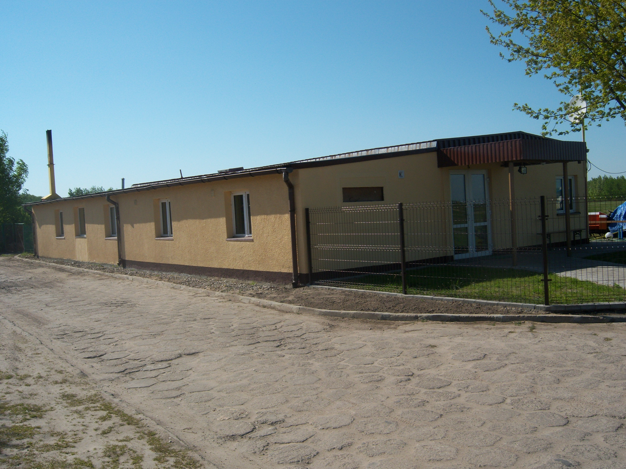 Aeroklub Koniński's main airport building - front side